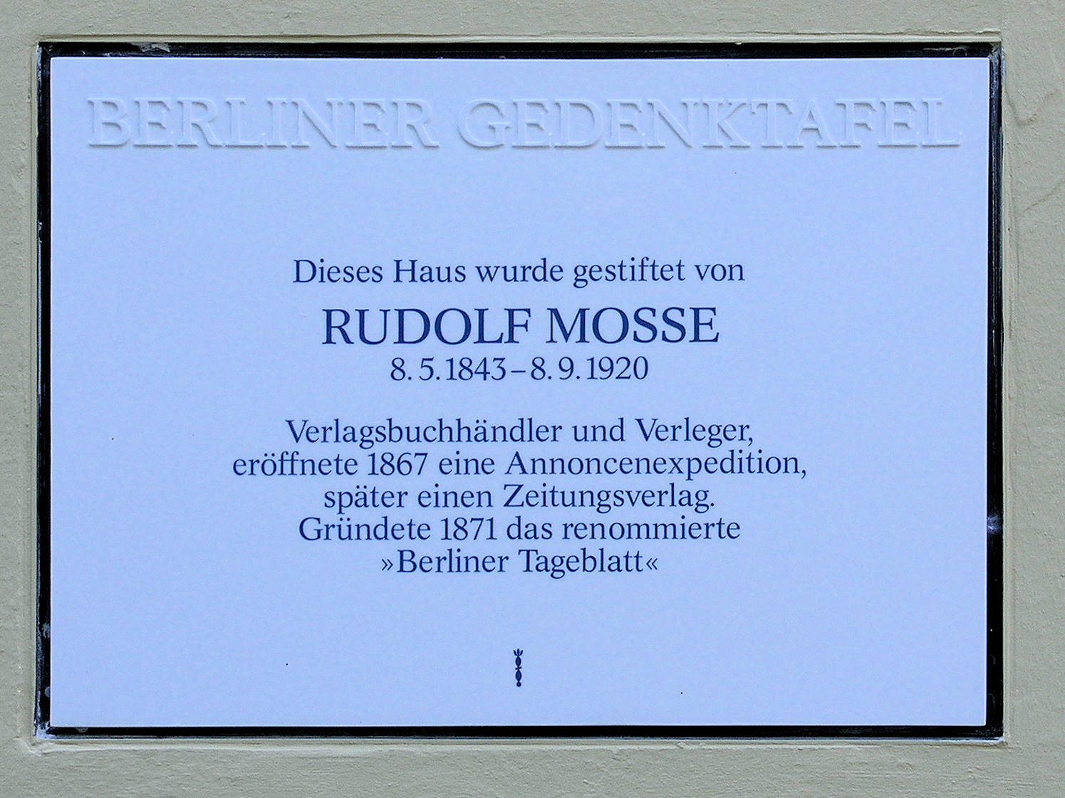 Berlin memorial plaque, Rudolf Mosse, Rudolf-Mosse-Straße 9-11, Berlin-Wilmersdorf, Germany Koordinate:52°28′29″N 13°18′13″E / 52.47472°N 13.30361°E